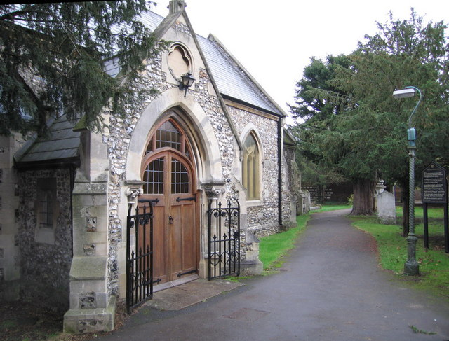 St. Nicholas Church - Thames Ditton A beautiful church that dates from 1115 and is open daily